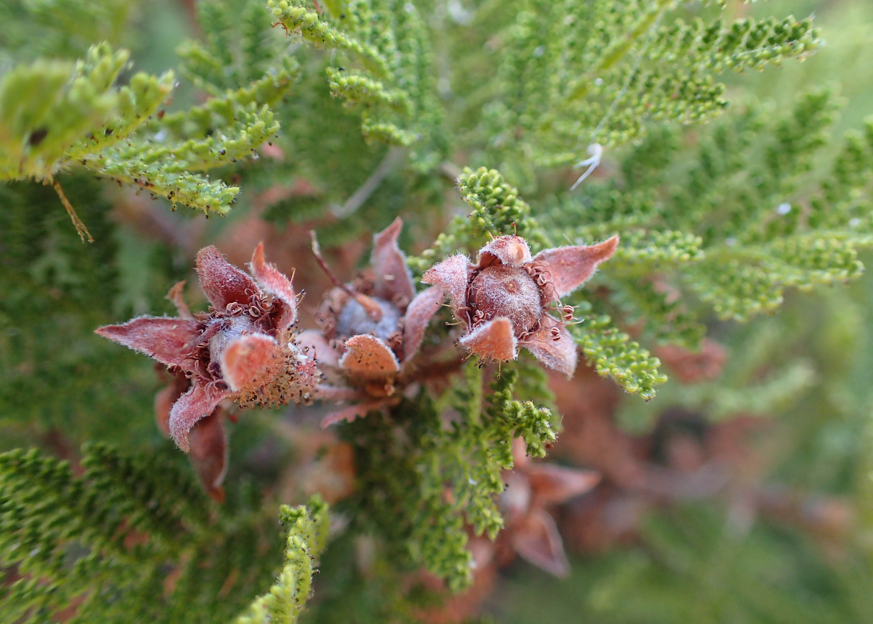 Chamaebatia foliolosa at Badger Pass Ski Arena, Yosemity Valley, California, USA